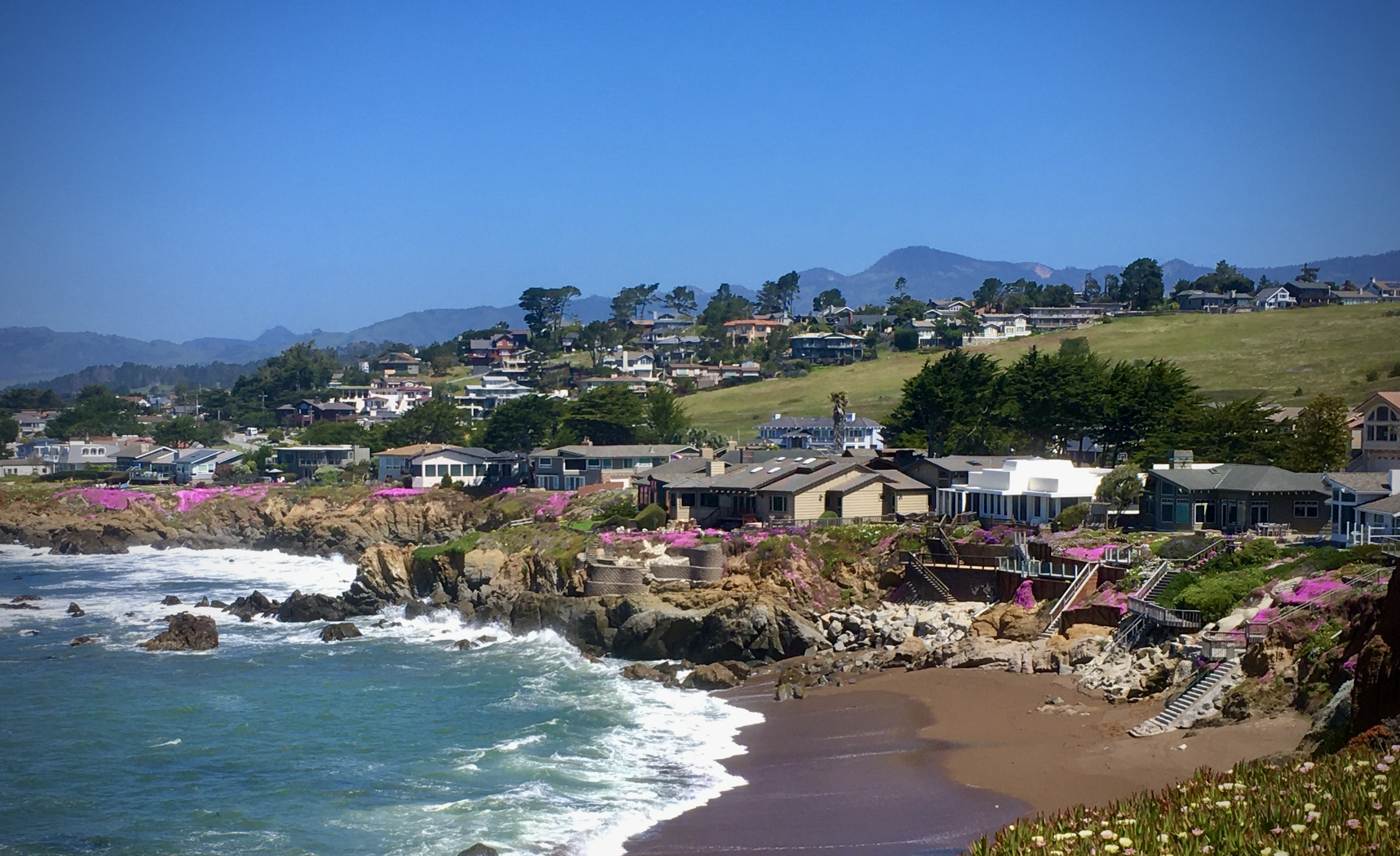 Delosperma cooperi ("Pink Carpet") plantings along "millionaire's row", Windsor Ave., Cambria Calif. Pink Carpet is a popular landscape planting here, and naturalizes freely. Photo is from the Fiscalini Ranch preserve, a county park.